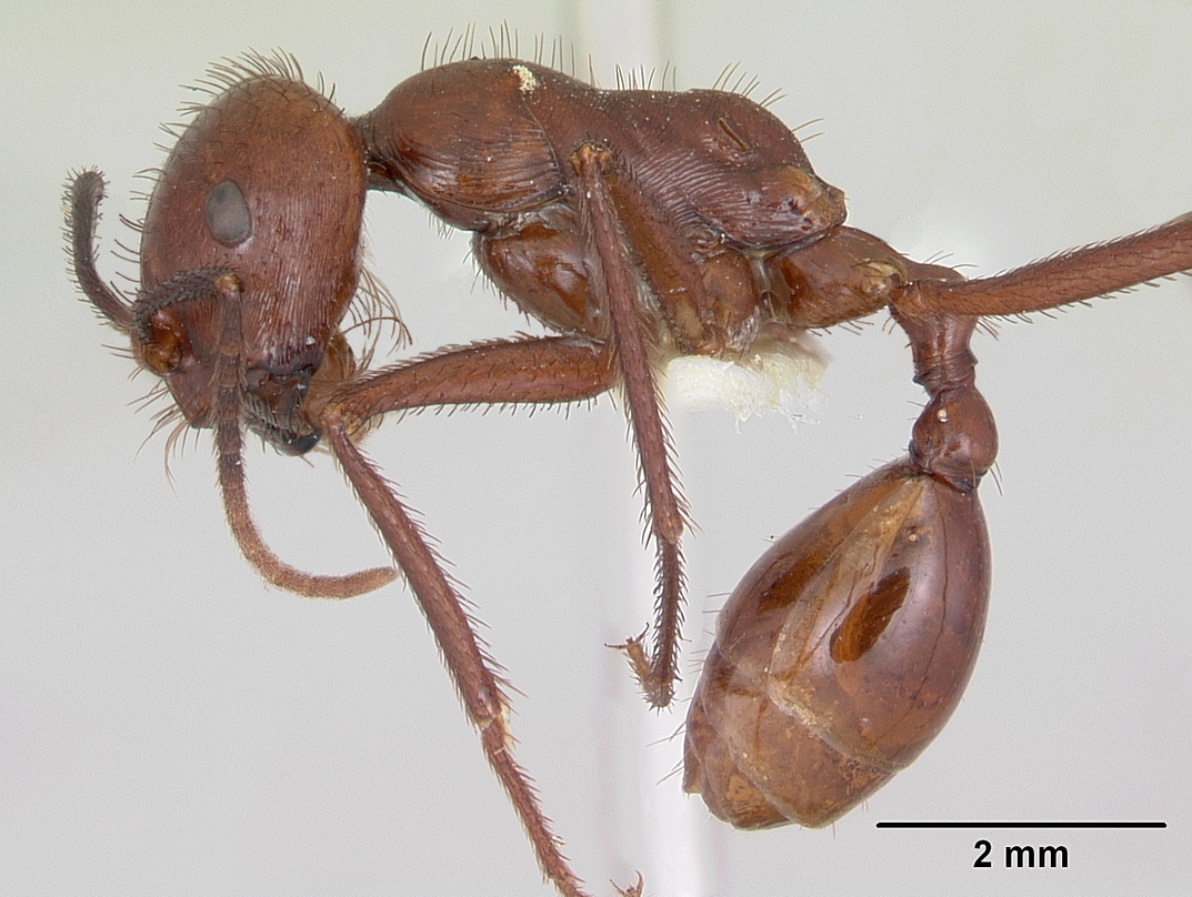 Profile view of ant Ocymyrmex ankhu specimen casent0173610.